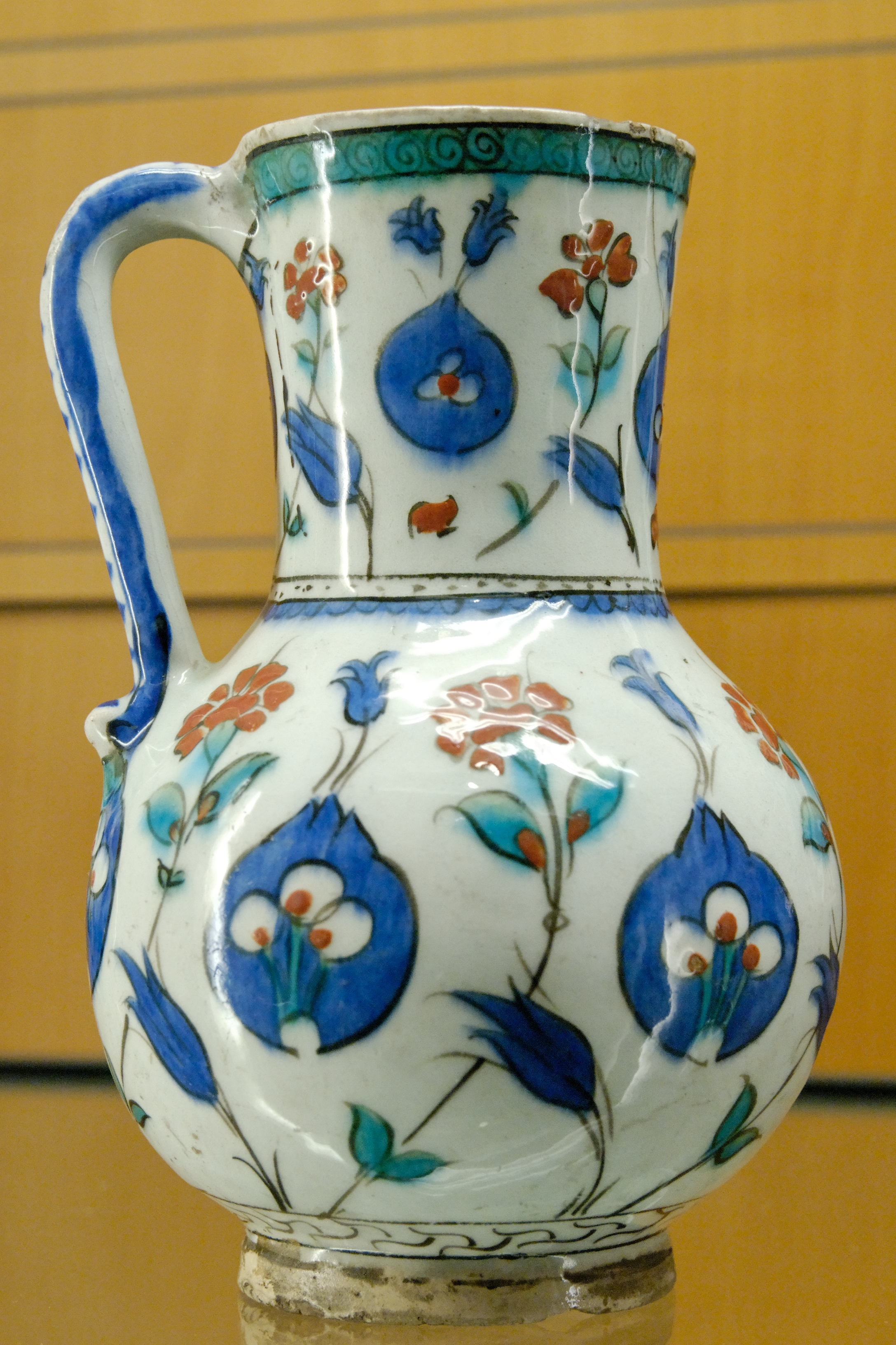 Jug with tulips and carnations. Composite body with underglaze engobe decoration, Iznik, Ottoman Turkey, 1590–1600.